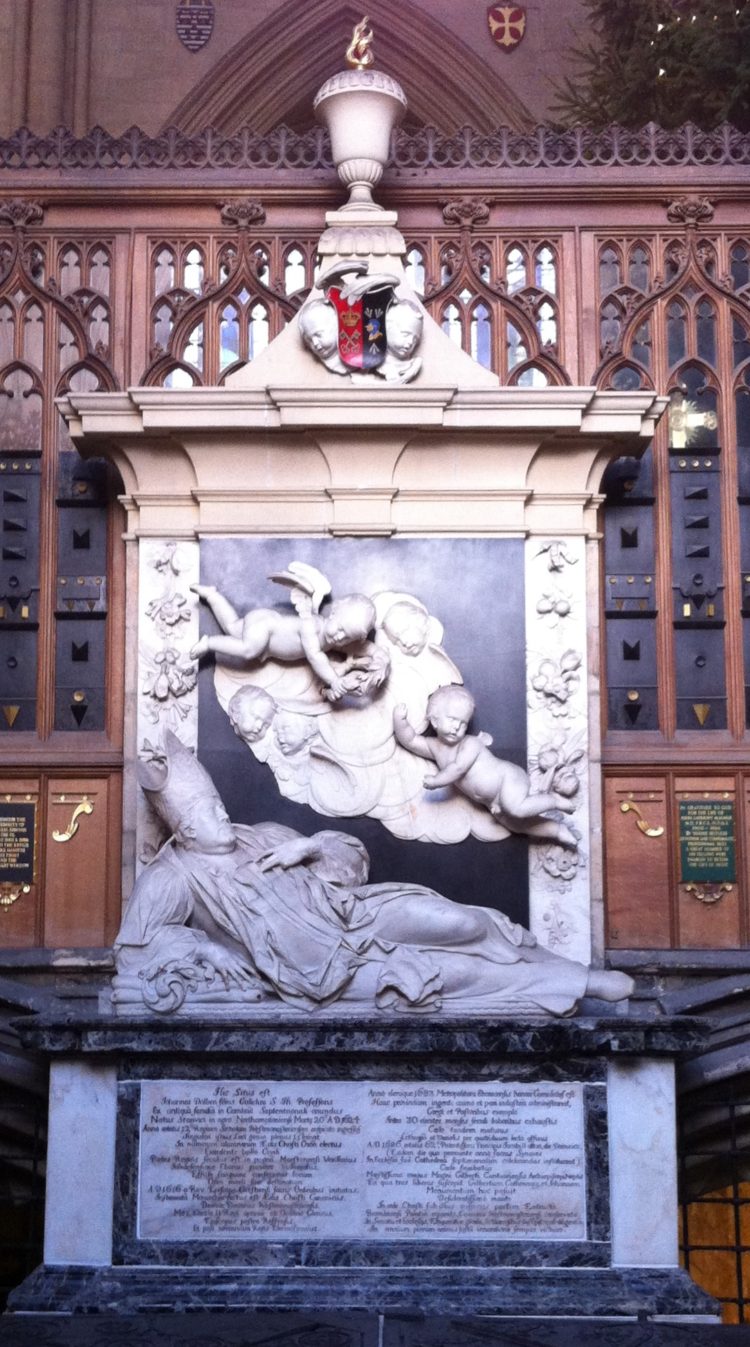 Archbishop John Dolben (1686) by Grinling Gibbons 1688. Latin inscription. He joined the Royalist Army at the outbreak of the Civil War, being wounded at Marston Moor